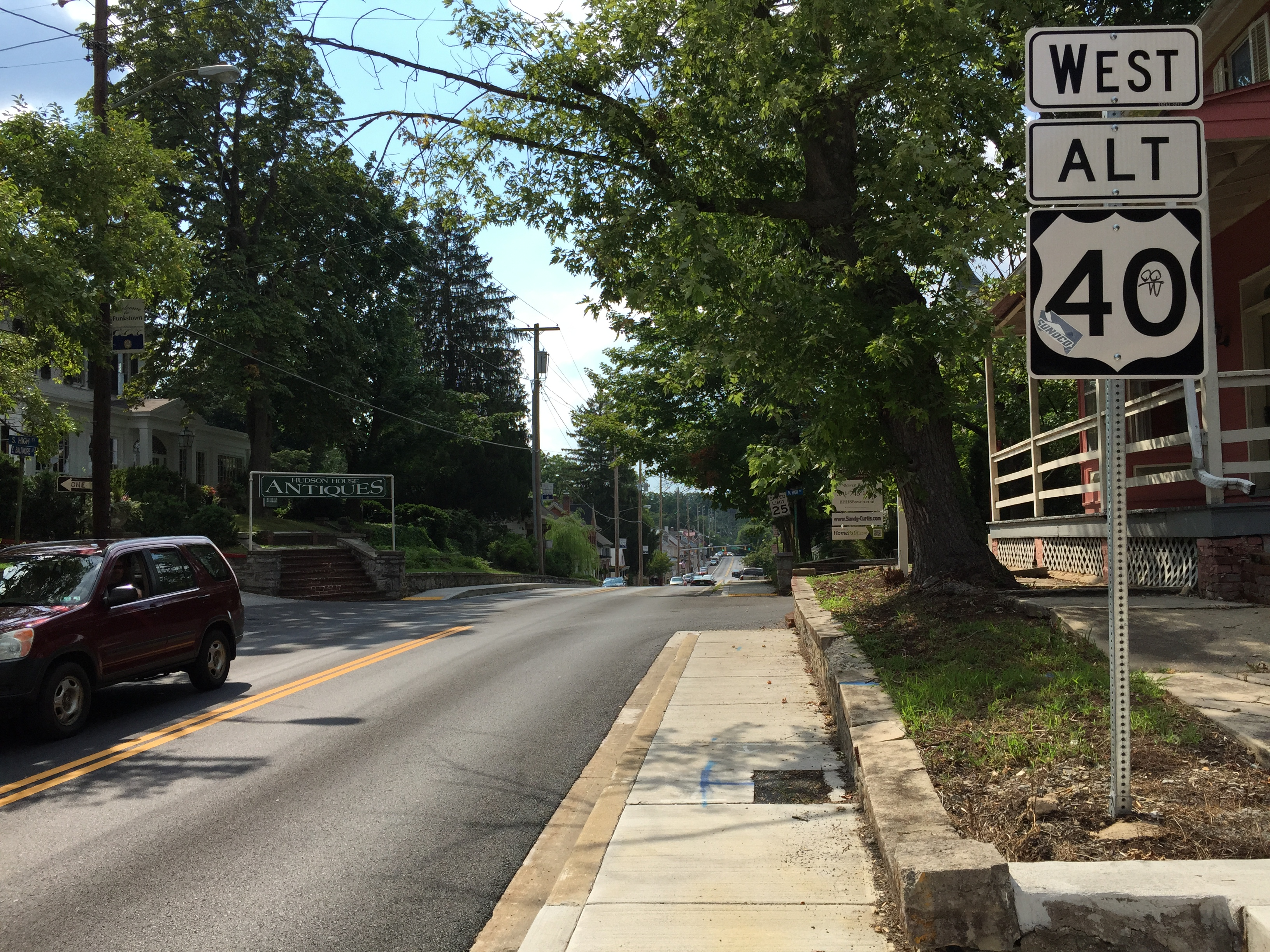 View west along U.S. Route 40 Alternate (Baltimore Street) at High Street in Funkstown, Washington County, Maryland